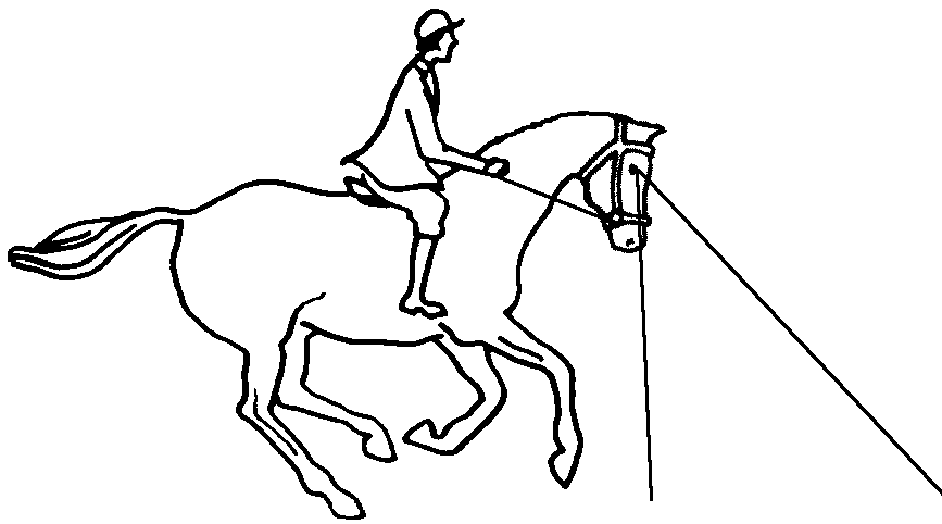 Range of binocular vision of a horse in collected frame